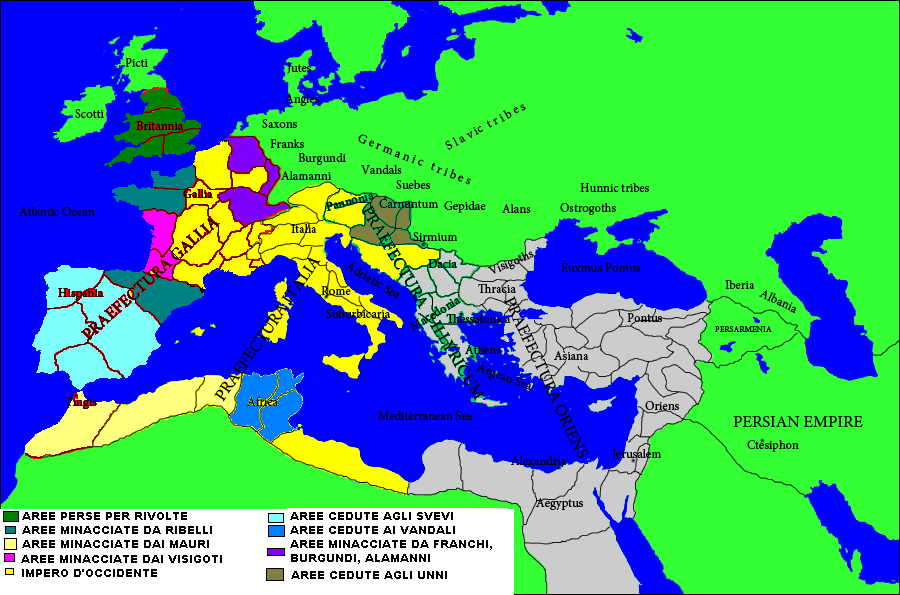 Western Roman Empire in 445